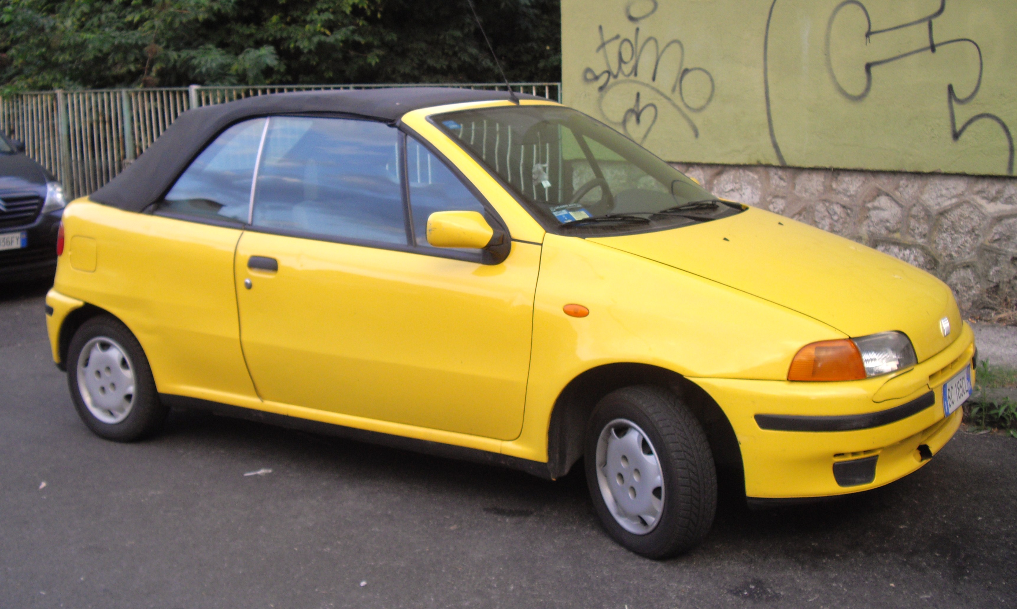 Punto Cabrio Bertone front